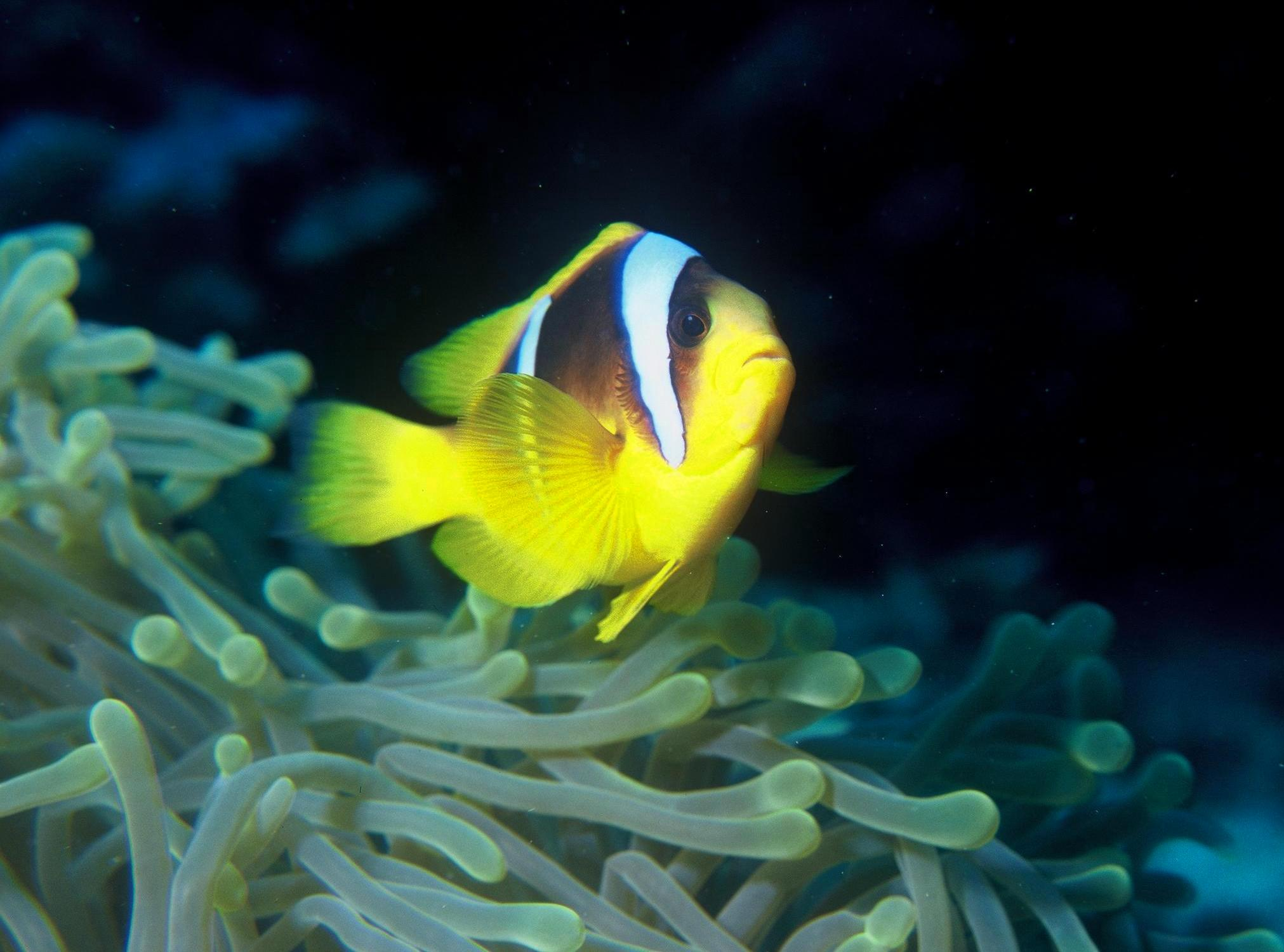 amphprion bicinctus, a kind of fish.